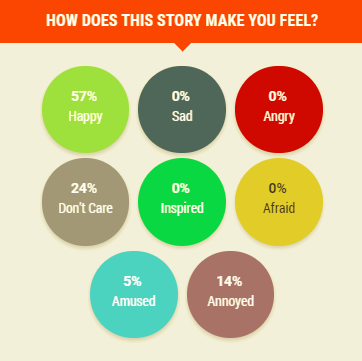 Rappler Mood Meter which aims to measure reader feedback.